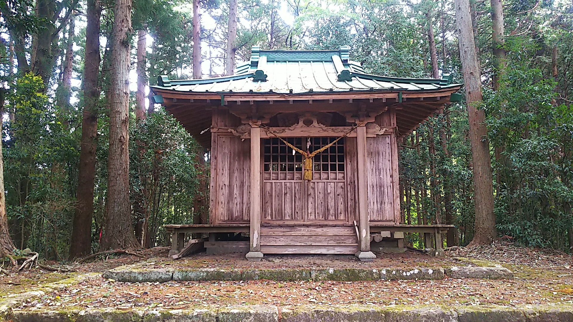 Atago Jinja （Atago shrine) in Daigo, Daigo Town, Ibaraki .